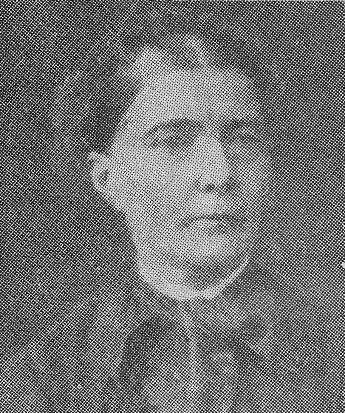 Petrine Pedersdatter Nøklebye (1828-1909). Grandmother, on the father side of Trygve Gulbranssen. Norsk (bokmål): Petrine Pedersdatter Nøklebye (1828-1909). Trygve Gulbranssens farmor.